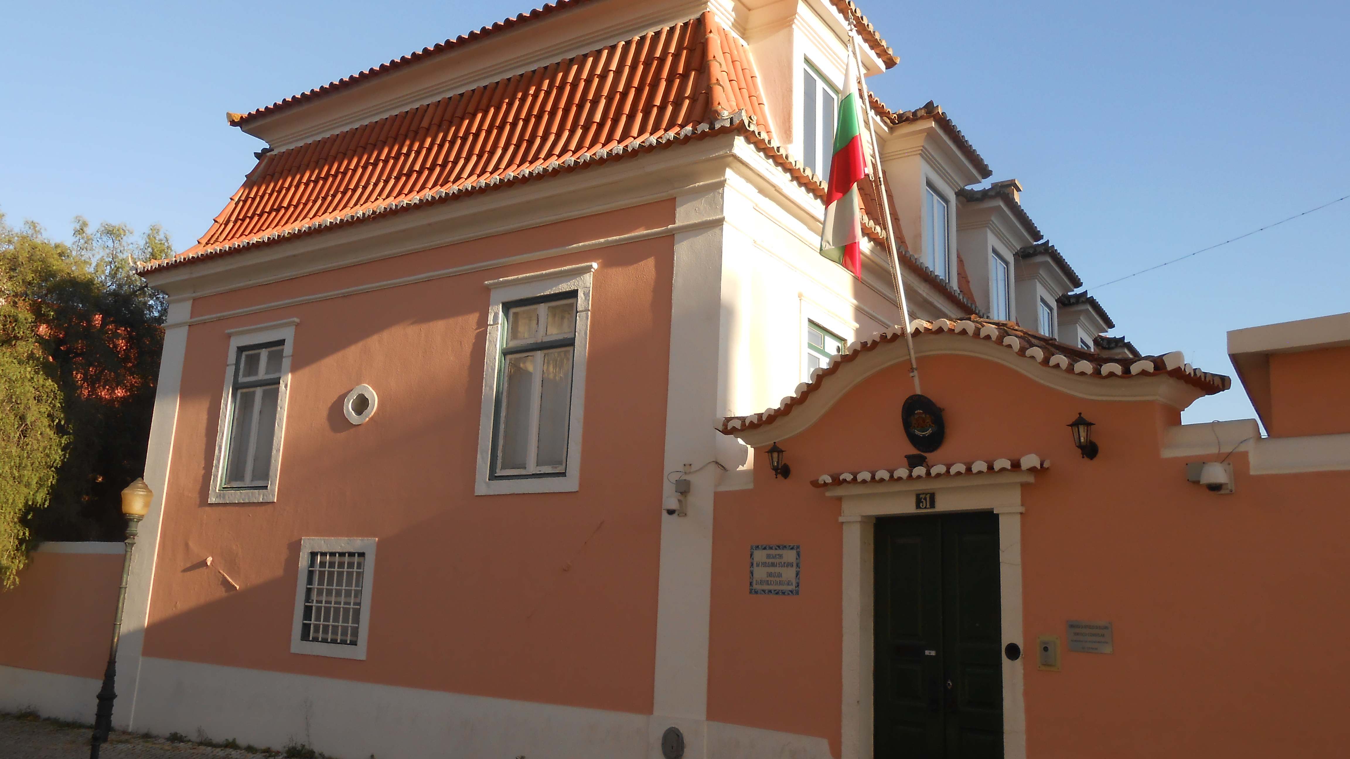 The embassy of Bulgaria in Lisbon, in the Rua do Sacramento (à Lapa), no. 29/31.